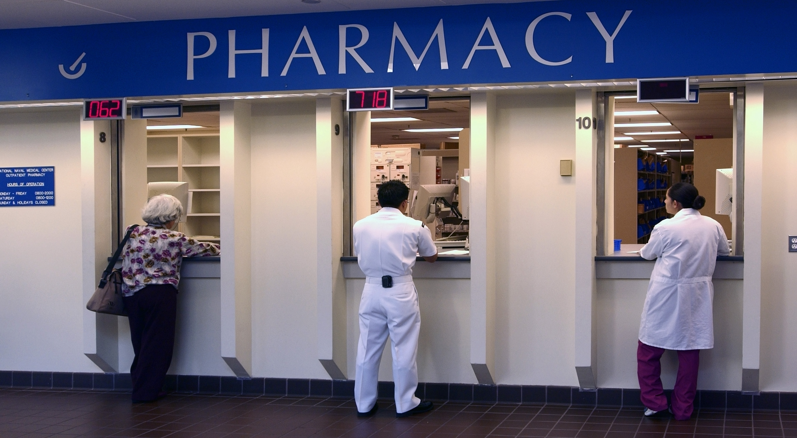 National Naval Medical Center, Bethesda, Md., (Aug, 19, 2003) -- Patients and staff wait for medications at the pharmacy windows at the National Naval Medical Center in Bethesda, Maryland. U.S. Navy photo by Chief Warrant Officer 4 Seth Rossman. (RELEASED)